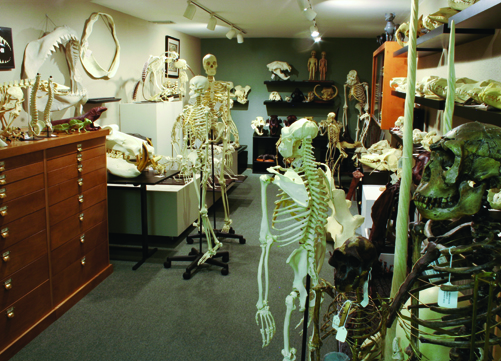 Bone Clones showroom display